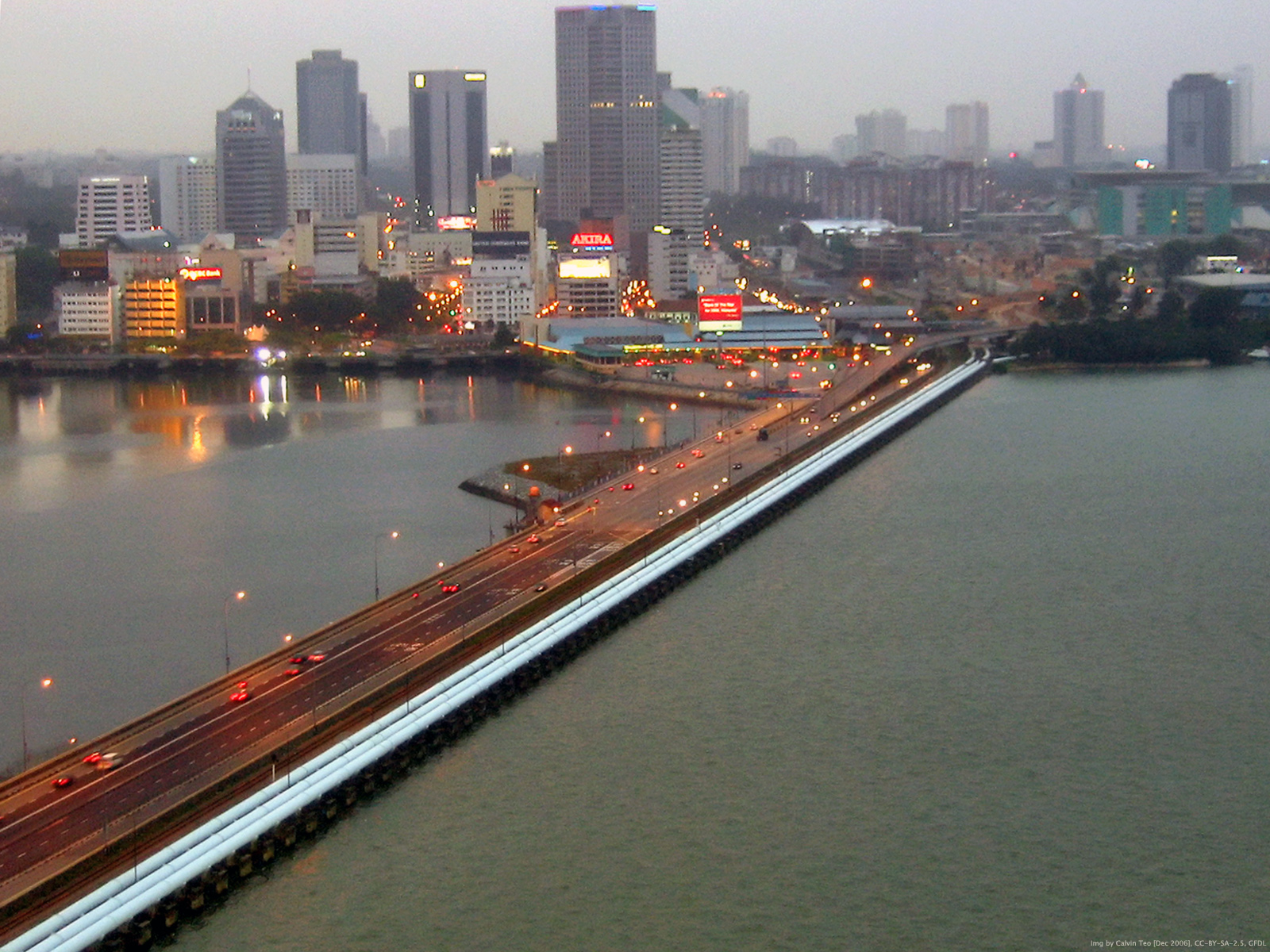 The Singapore-Johor causeway, spanning across the Johor Straits. It is one of two bridges which connect Singapore to Malaysia and Continental Asia.